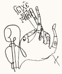 Nikoloz, Catholicos of Georgia. Signature